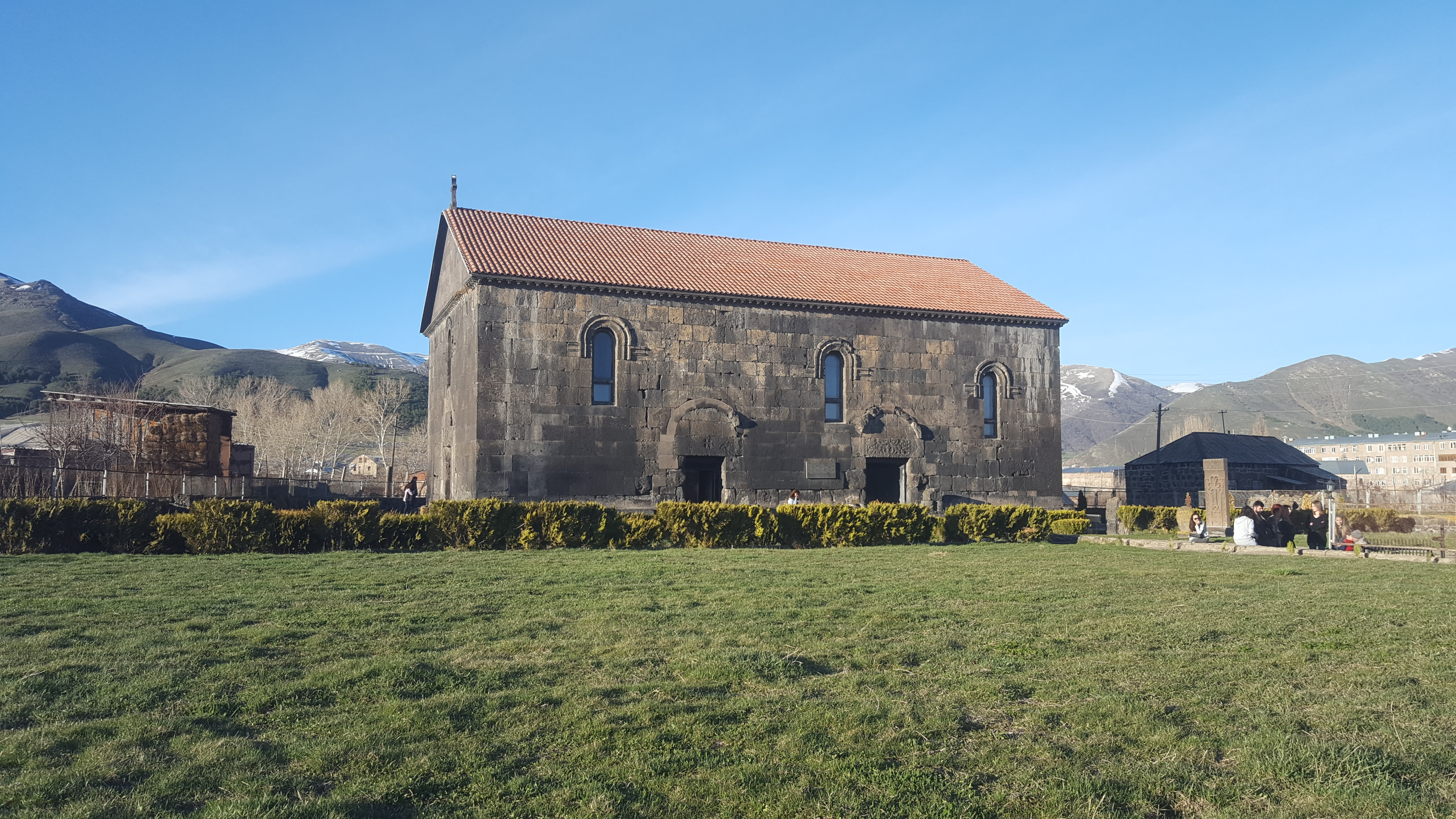 Kasagh Basilica